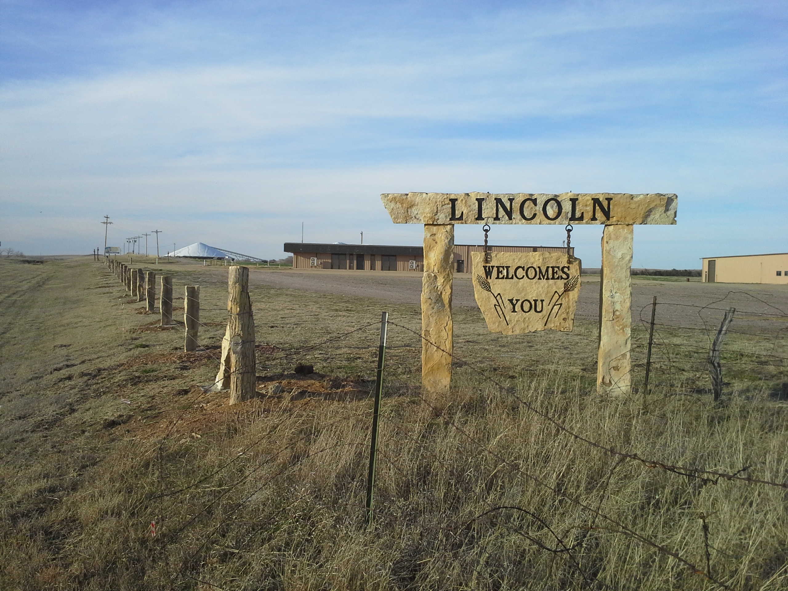 This type of sign announces Post Rock Country communities in north central Kansas.